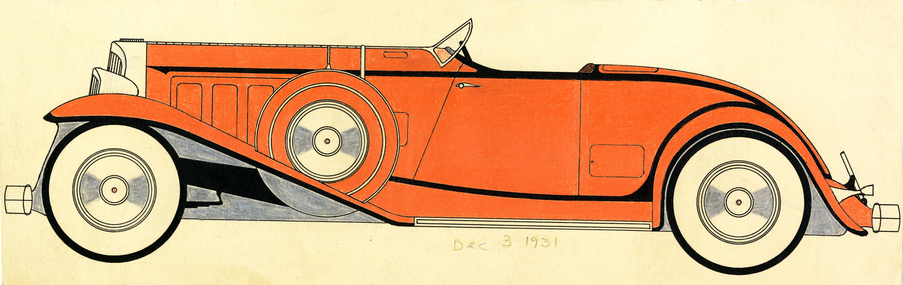 The original drawing has been donated to the Museum of Fine Arts, Boston, but the image posted here was made by me, T. W. Pietsch III. Please see the correspondence below from Jennifer C. Riley, Head of Image Licensing and Digital Archives Museum of Fine Arts, Boston. You may tell them that while the Museum of Fine Arts, Boston owns the artwork; we do not retain the copyright to Theodore Wells Pietsch II’s images. Best, Jennifer Jennifer Riley Head of Image Licensing and Digital Archives Museum of Fine Arts, Boston | 617-369-3777 Dear Mr. Pietsch, Regarding copyright, you retain copyright to any photos you took of the drawings made by your father. The copyright to the artworks and photographs does not revert to the Museum automatically upon donation of the works. The copyright to the photographs that you took stays with you so you have every right to upload those photos to Wikipedia. I am happy to provide you with language necessary for you to pass on to Wikipedia so you can reload the images. Since the Museum does not, in fact, hold the copyright to those photos, we cannot upload them. Best, Jennifer Jennifer Riley Head of Image Licensing and Digital Archives Museum of Fine Arts, Boston | 617-369-3777